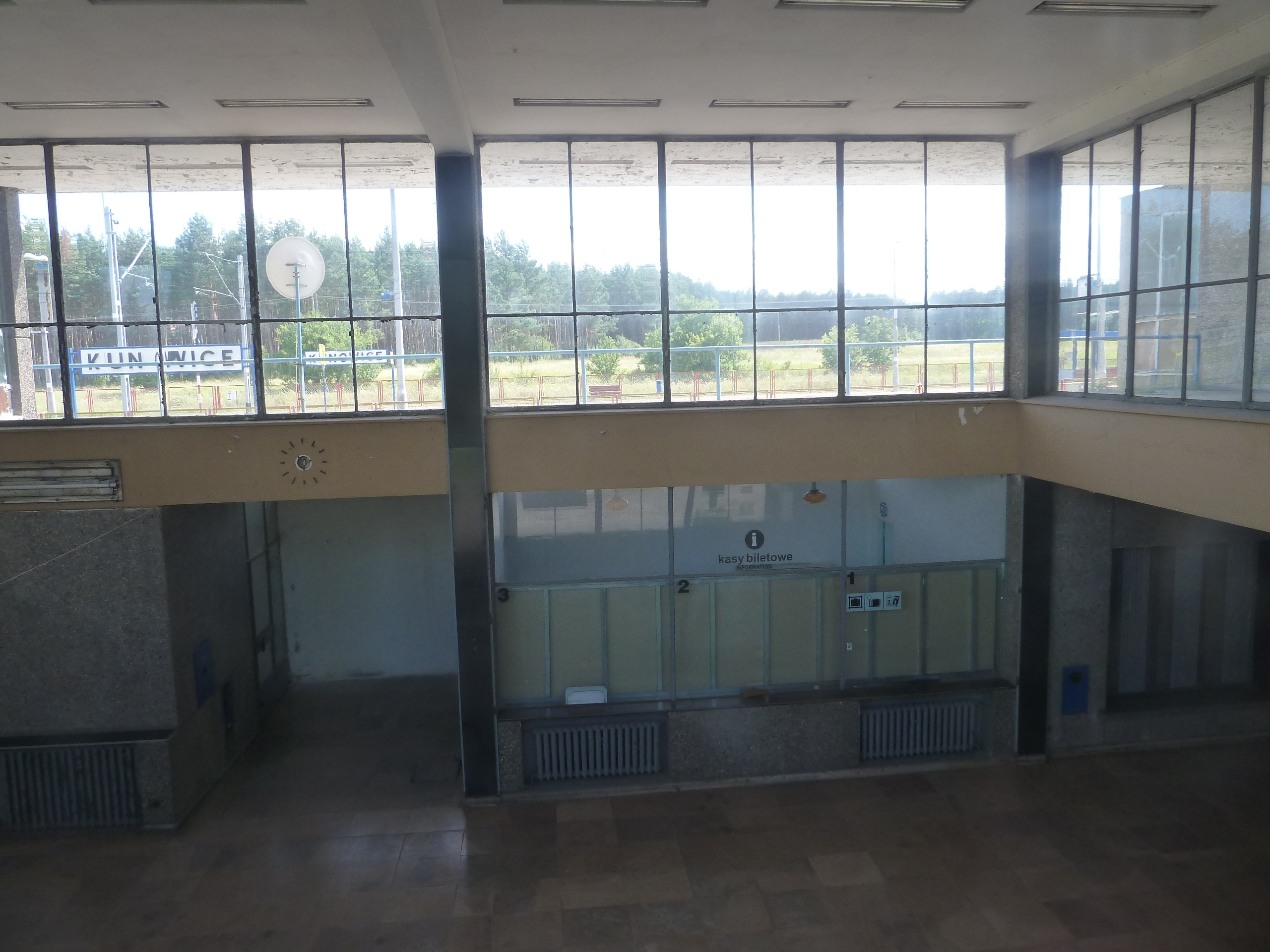 Kunowice train station, former station building, inside, former ticket counters